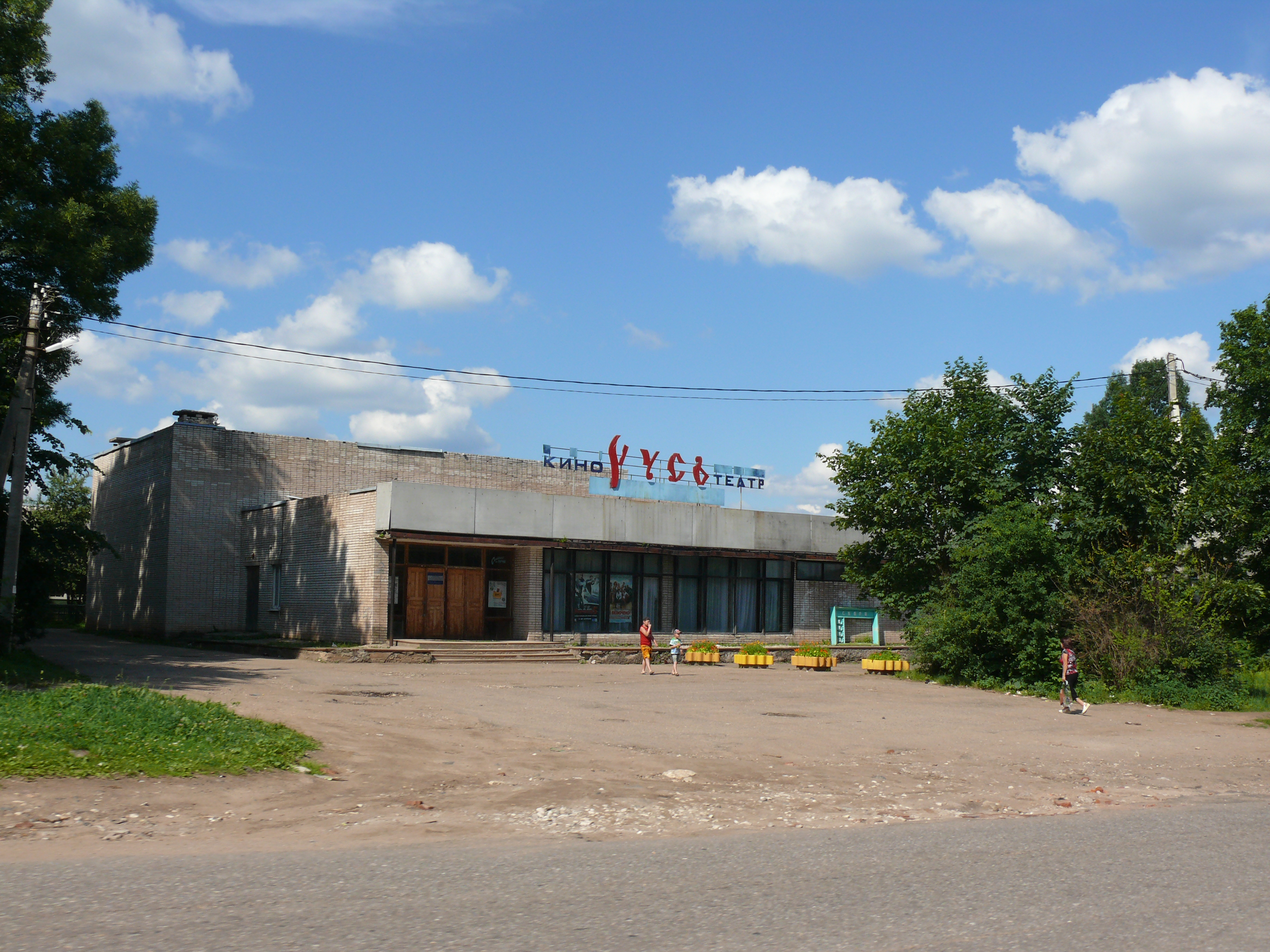 The cinema "Rus" in Krestsy village. Novgorod oblast, Russia